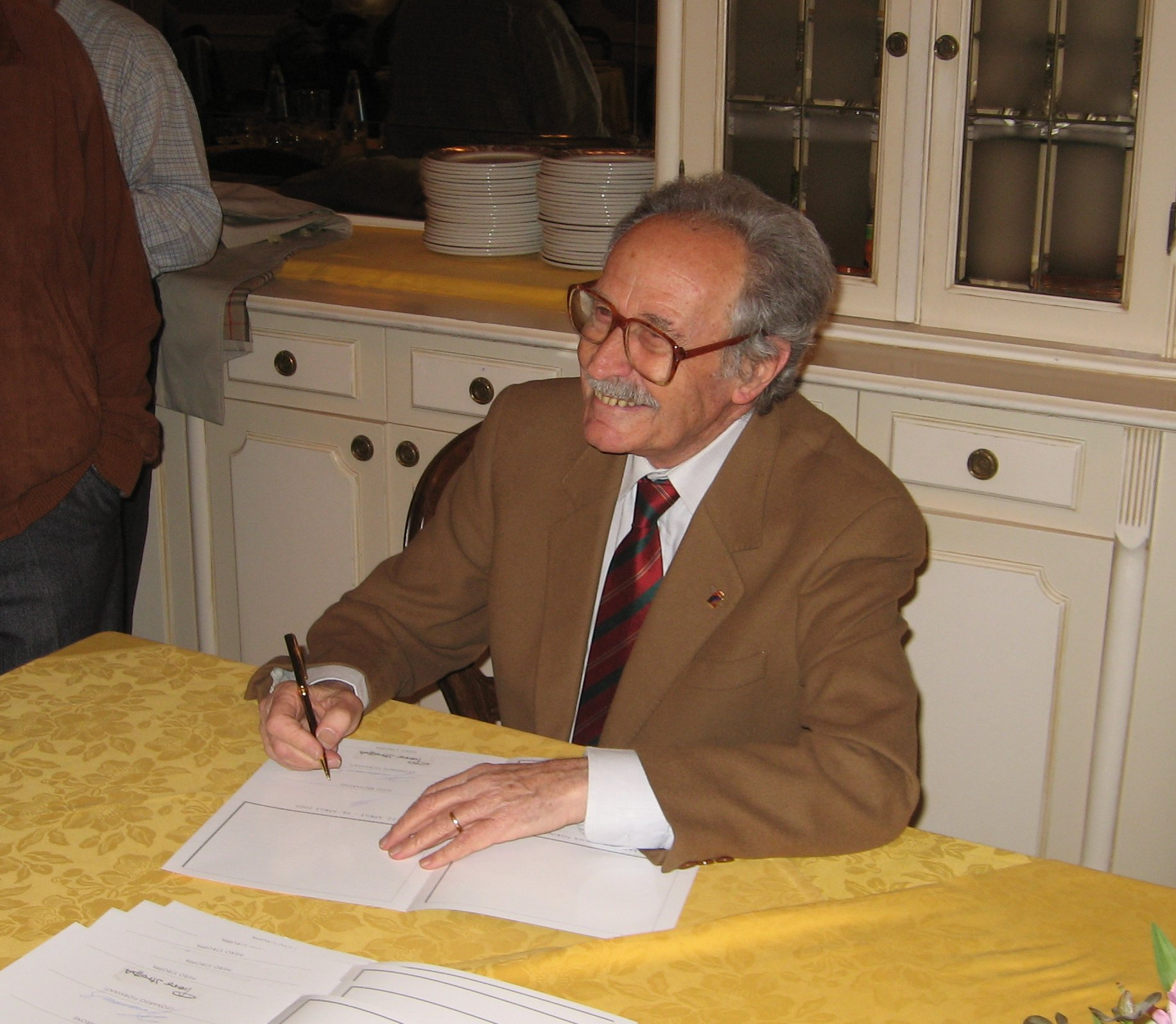 Aldo Brovarone picture during the Mega Lancia Gamma Meeting in Turin April 23-26 2009.